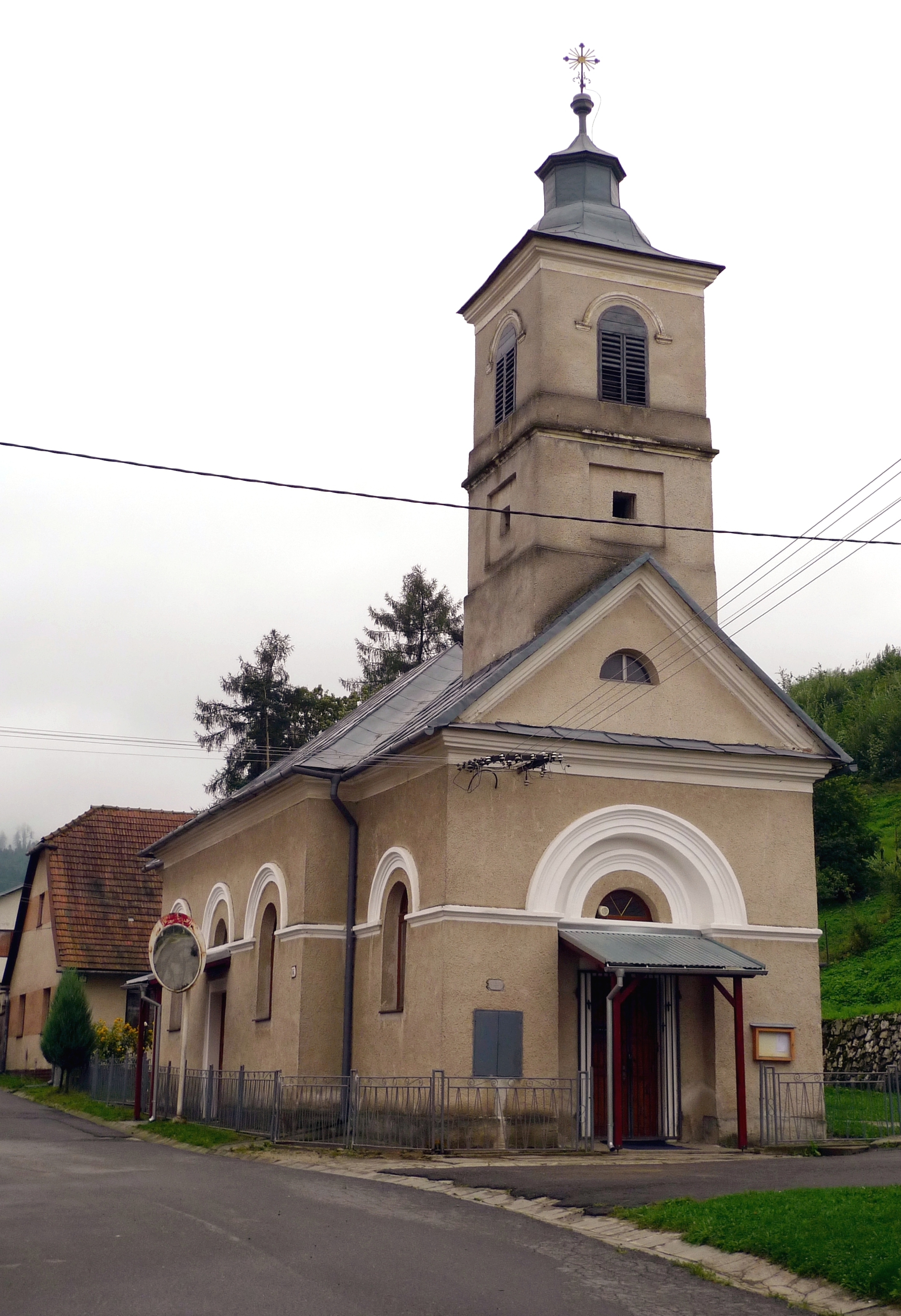 catholic church in Ihľany, Slovakia Česky: Kostel v obci Ihľany na Slovensku